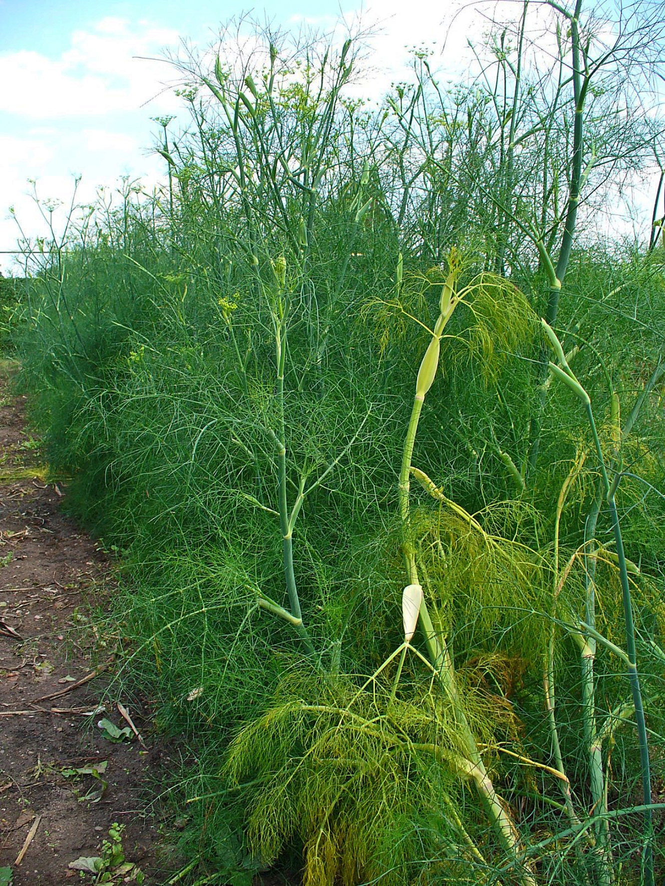 Foeniculum vulgare, Apiaceae, Fennel, habitus. The dried ripe fruits are used in homeopathy as remedy: Foeniculum (Foen-an.)